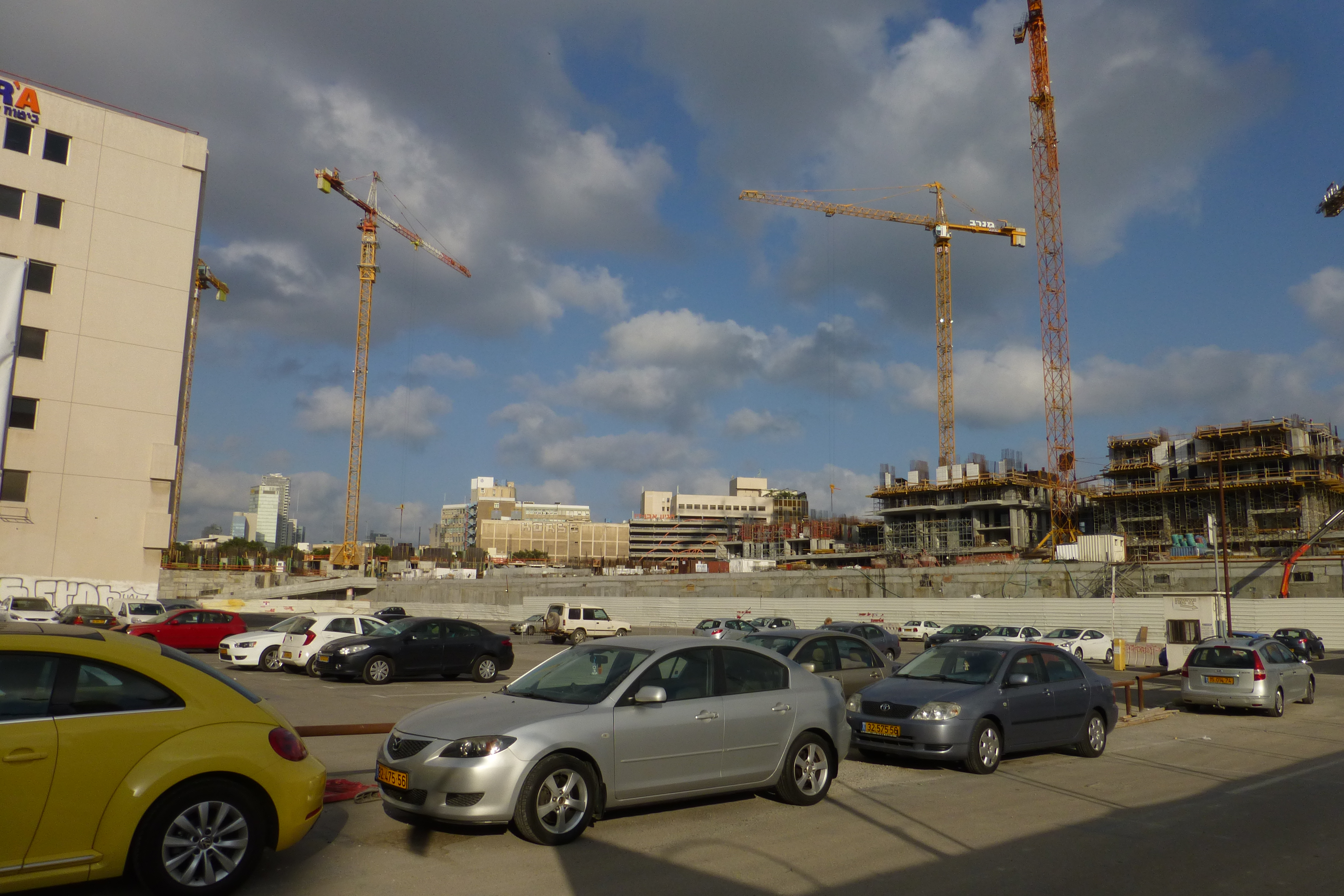 Tel Aviv-Yafo